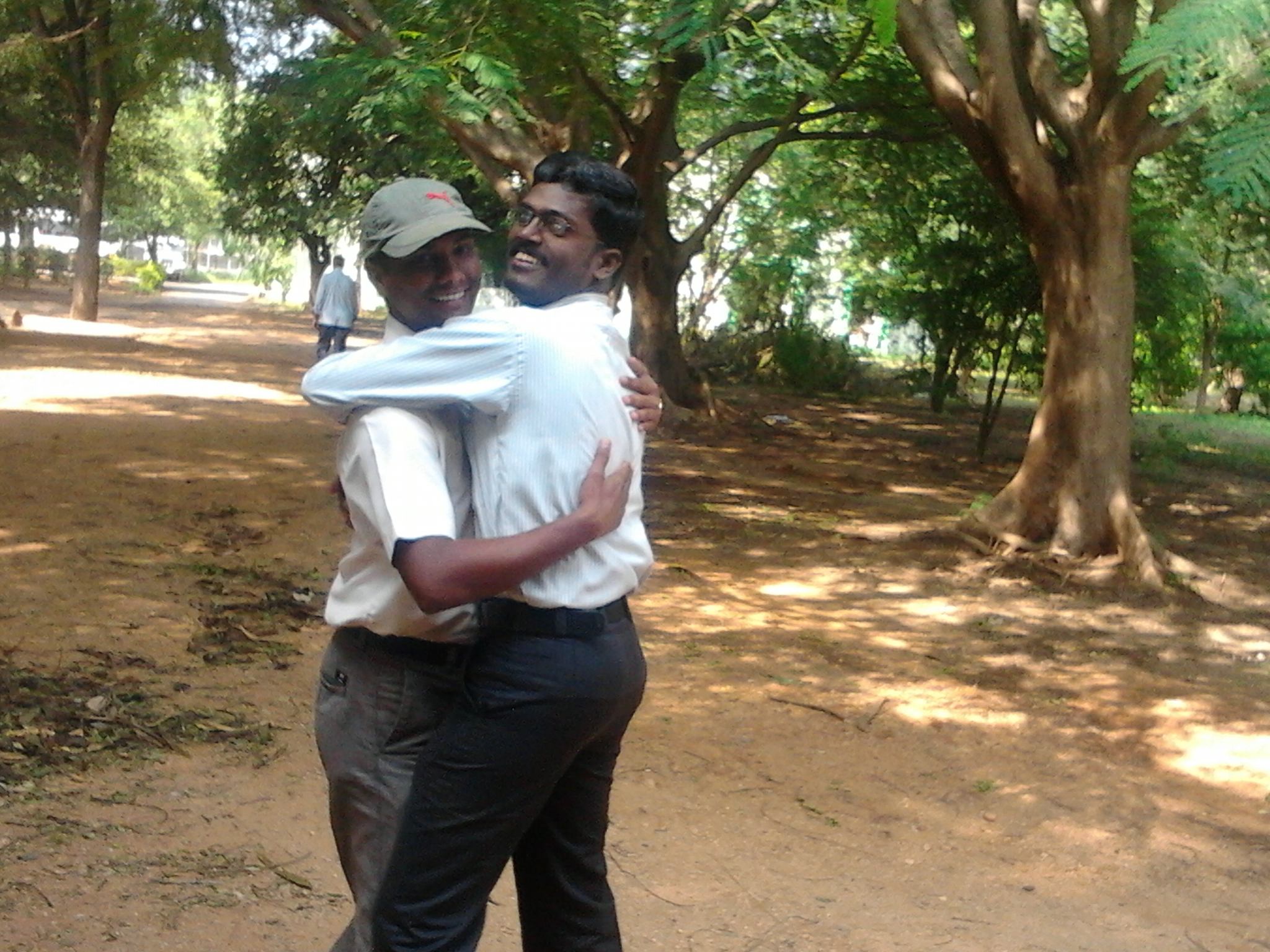 Two friends of Indian origin